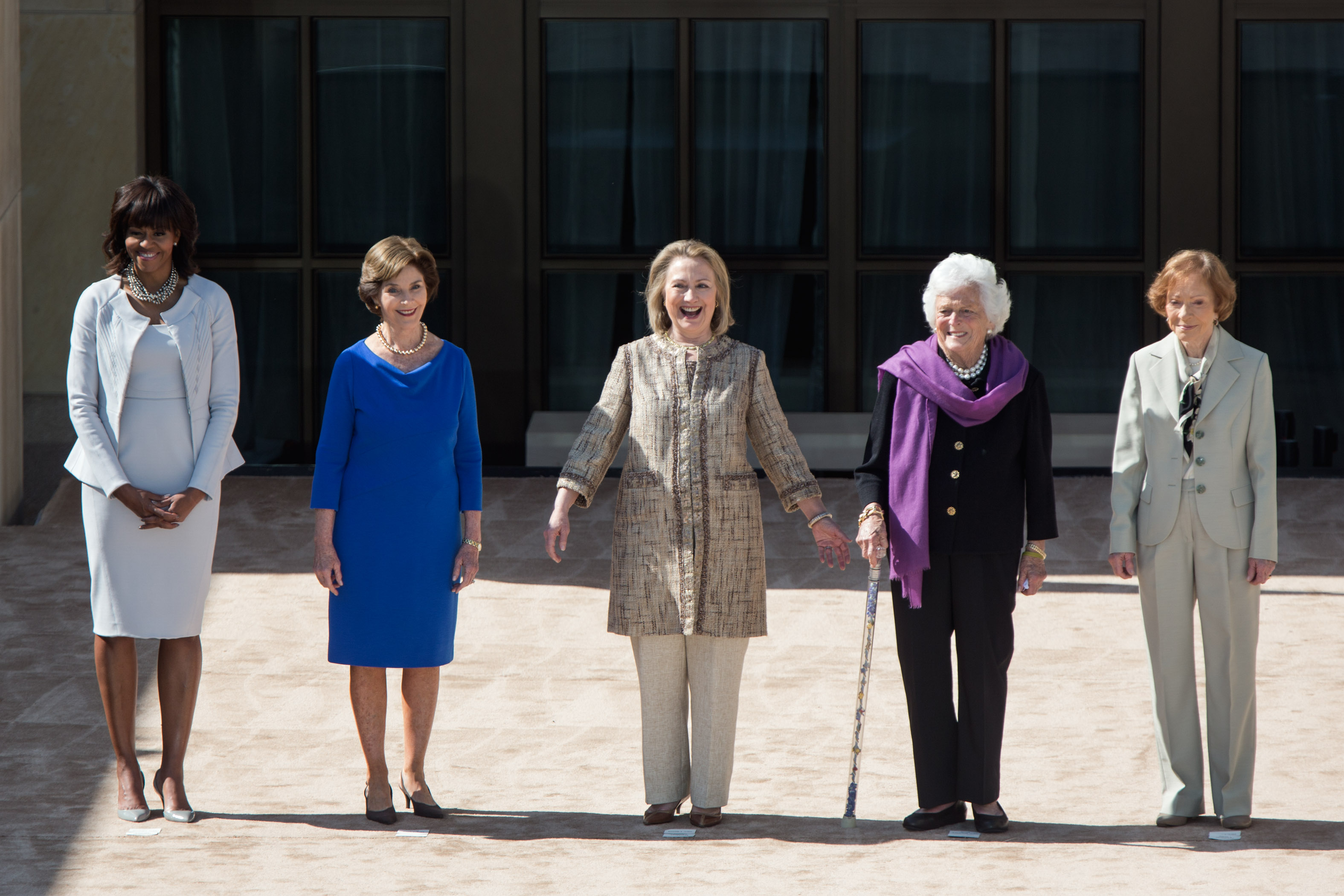 United States First Lady Michelle Obama with former First Ladies Laura Bush, Hillary Clinton, Barbara Bush, and Rosalynn Carter during the dedication of the George W. Bush Presidential Library and Museum on the campus of Southern Methodist University in Dallas, Texas, on 25 April 2013.